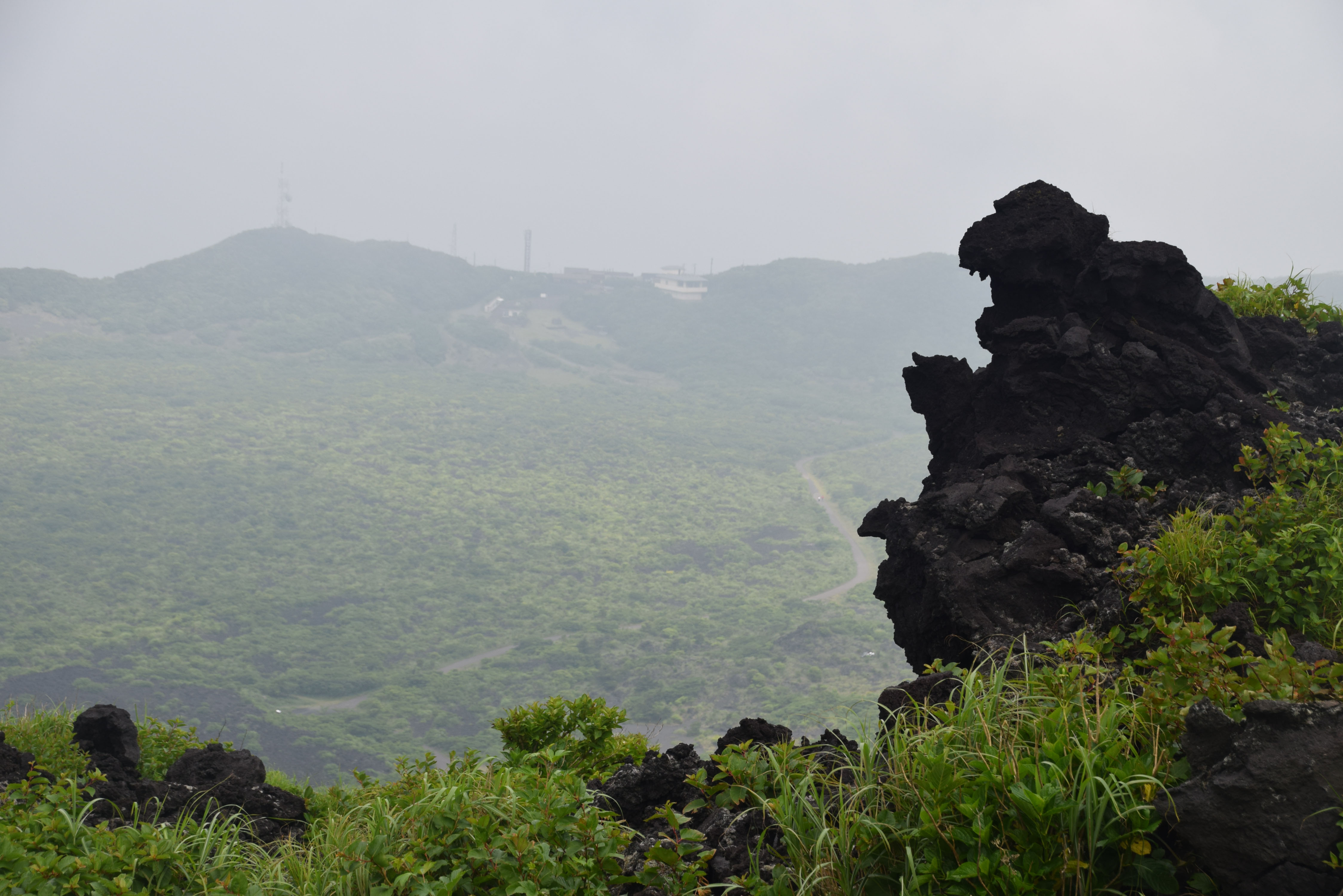 Godzilla Rock (Ja: ゴジラ岩) is located on the inner caldera rim path (火口一周道路) around the crater of Mount Mihara (三原山), on Izu Oshima (伊豆大島), Japan. In the back can be seen the paved walking path from the bus stop on the outer caldera rim to the top of the mountain.